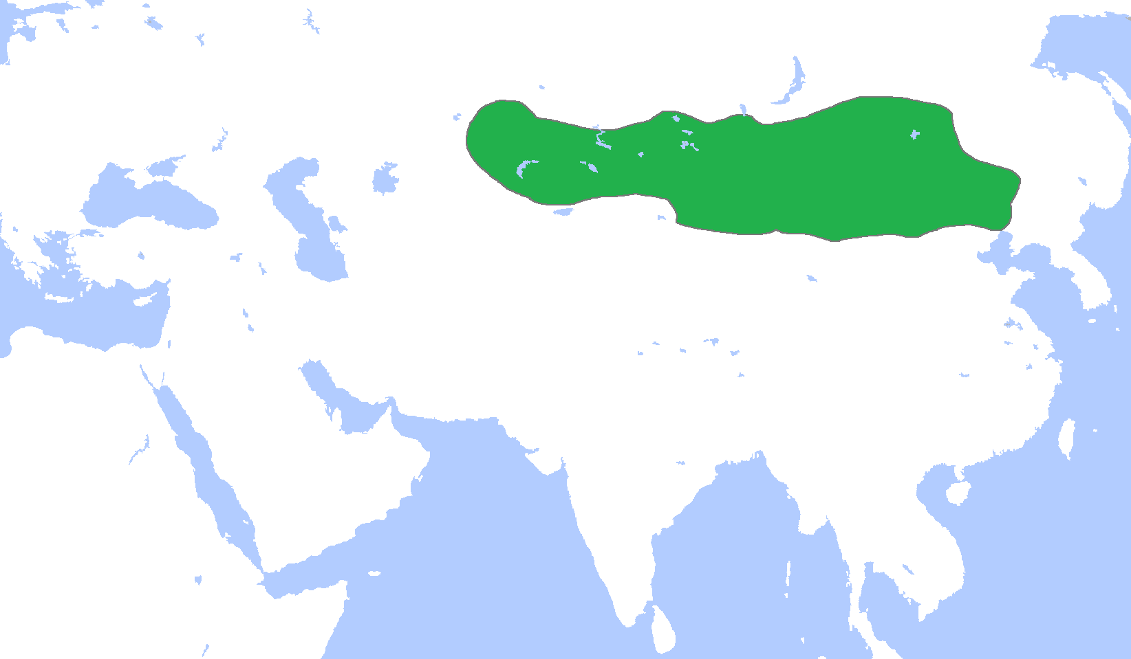 Locator map of the Rouran Empire, c. 500. (Partially based on Atlas of World History (2007) - The World 250-500, map)